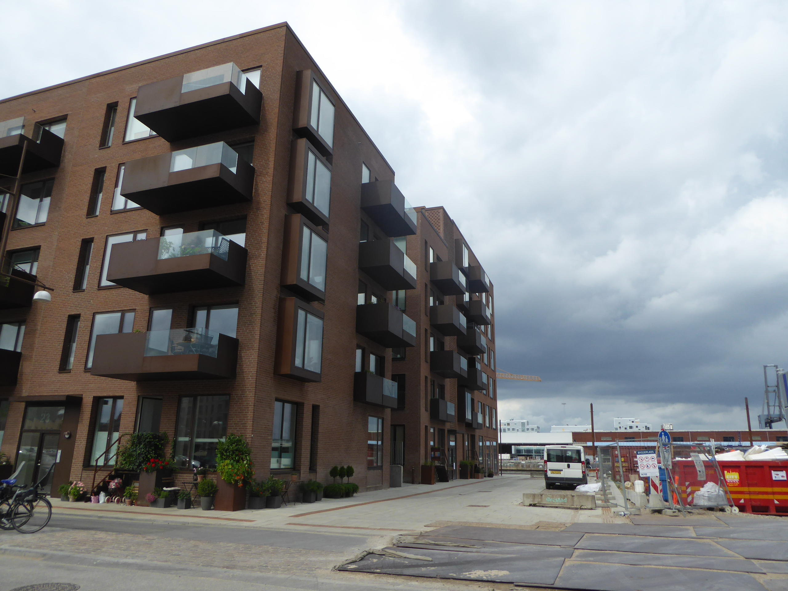 The street Dunkerquegade with the apartment building Kronløbshuset in Nordhavn in Copenhagen.